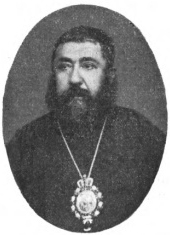 Garegin Srvandztiants (Armenian: Գարեգին Սրվանձտեանց or Սրվանձտեան Srvandztian; November 17, 1840 – November 17, 1892) was an Armenian philologist, folklorist, ethnographer, and priest.